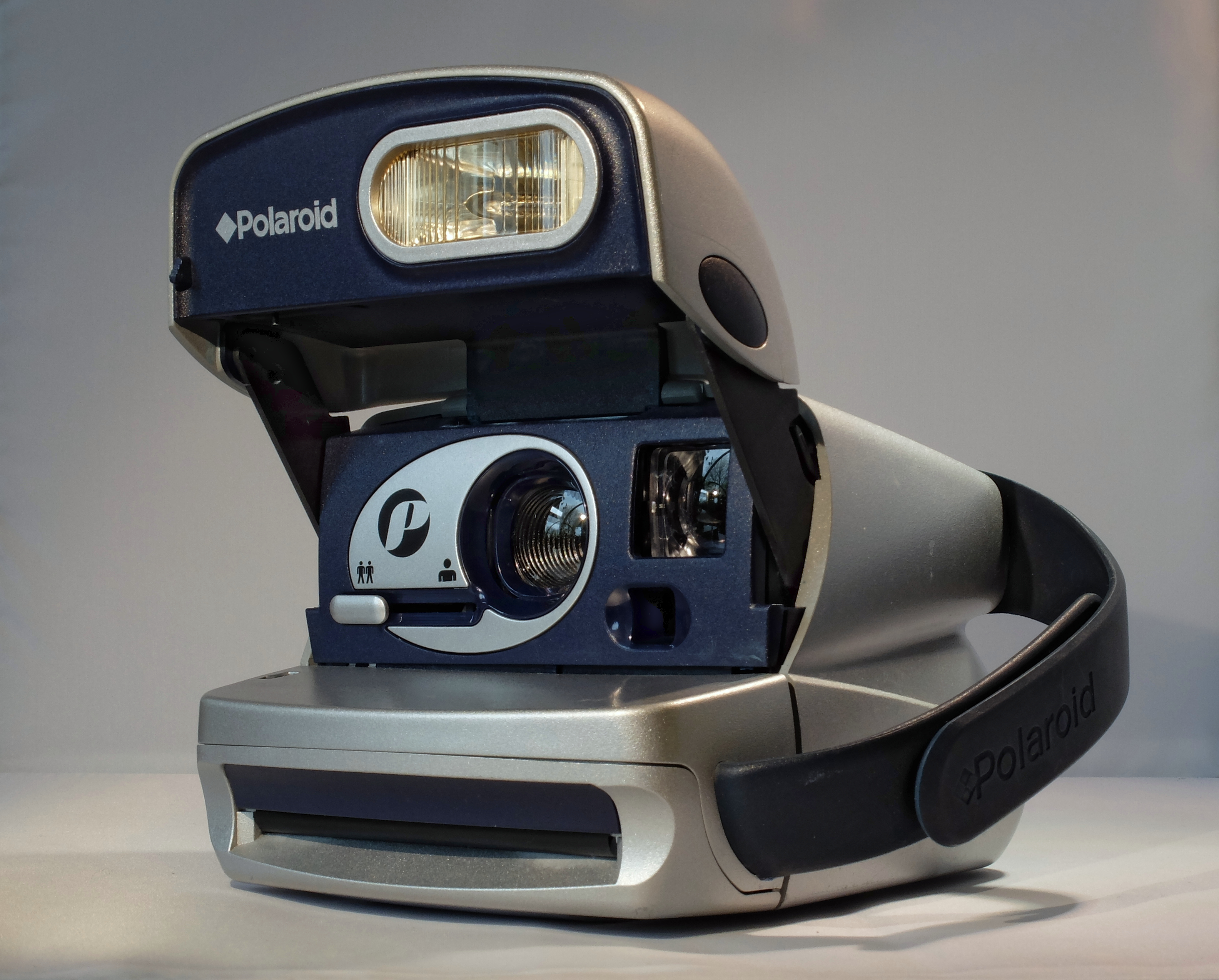 Polaroid P - instant camera - type 600 - Close-up-Lens